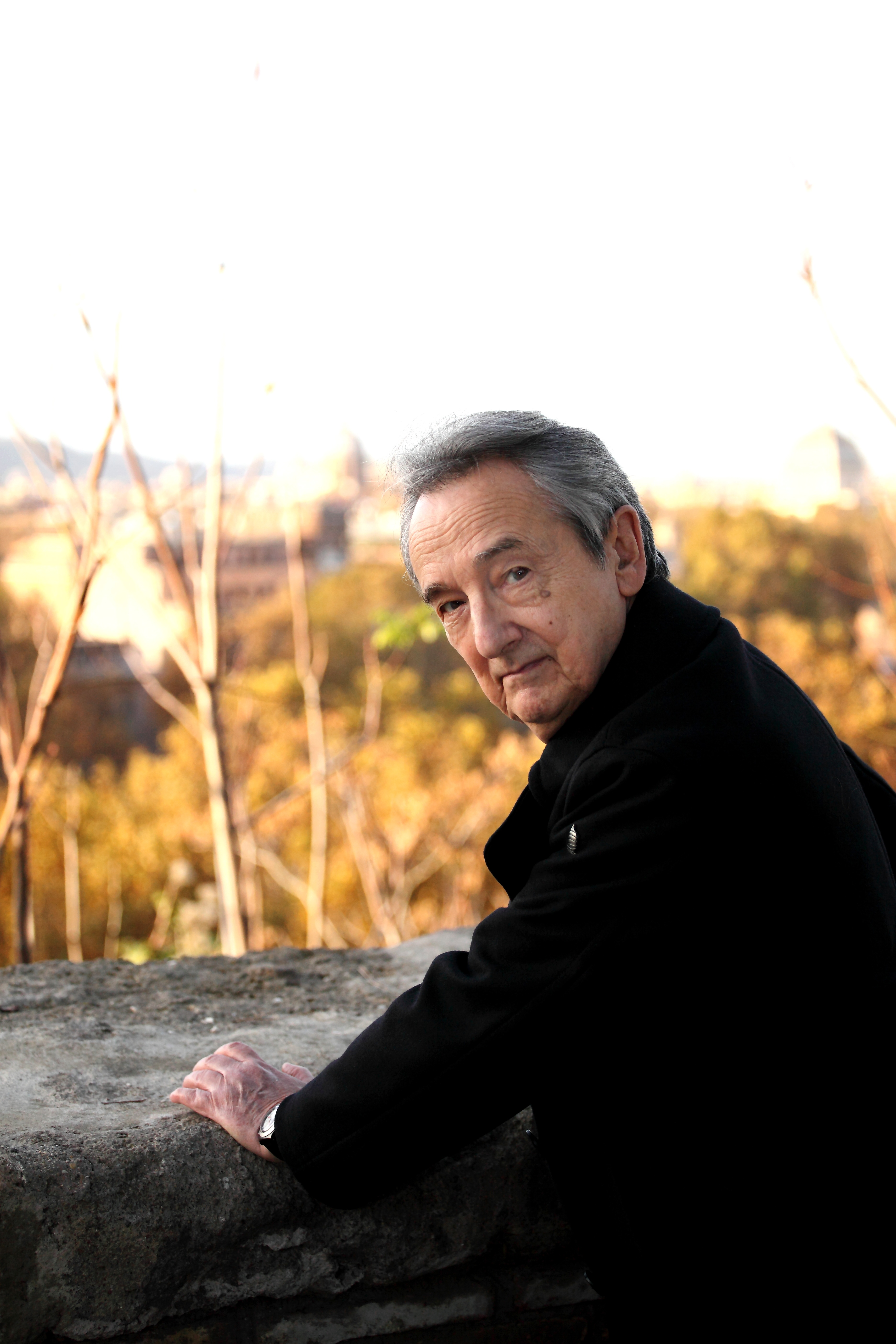 Antonio Debenedetti fotografato da Massimiliano Malerba